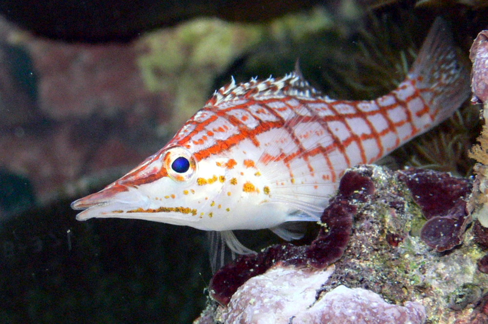 Longnose Hawkfish (Oxycirrhites typus)